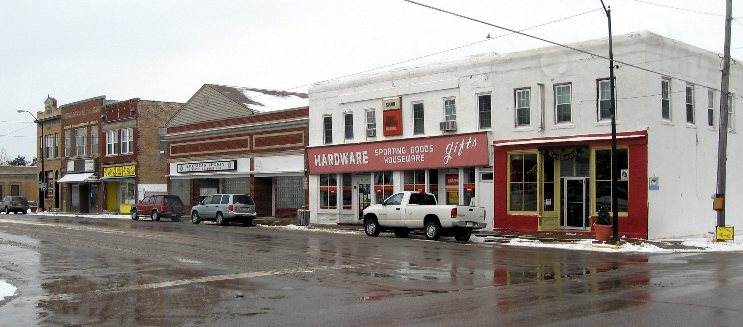 Downtown Solon, Iowa, facing northwest